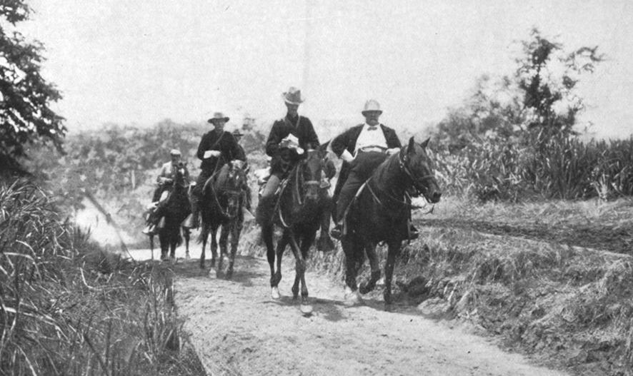 General William Rufus Shafter and his staff, Lieutenant Miley reading dispatches, from p. 92 of Cannon and Camera by John C. Hemment, published by Appleton and Co. in 1898.